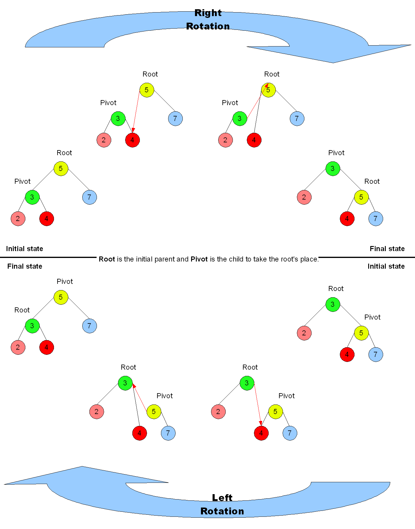 A pictorial description of how tree rotations on a binary search tree are implemented.